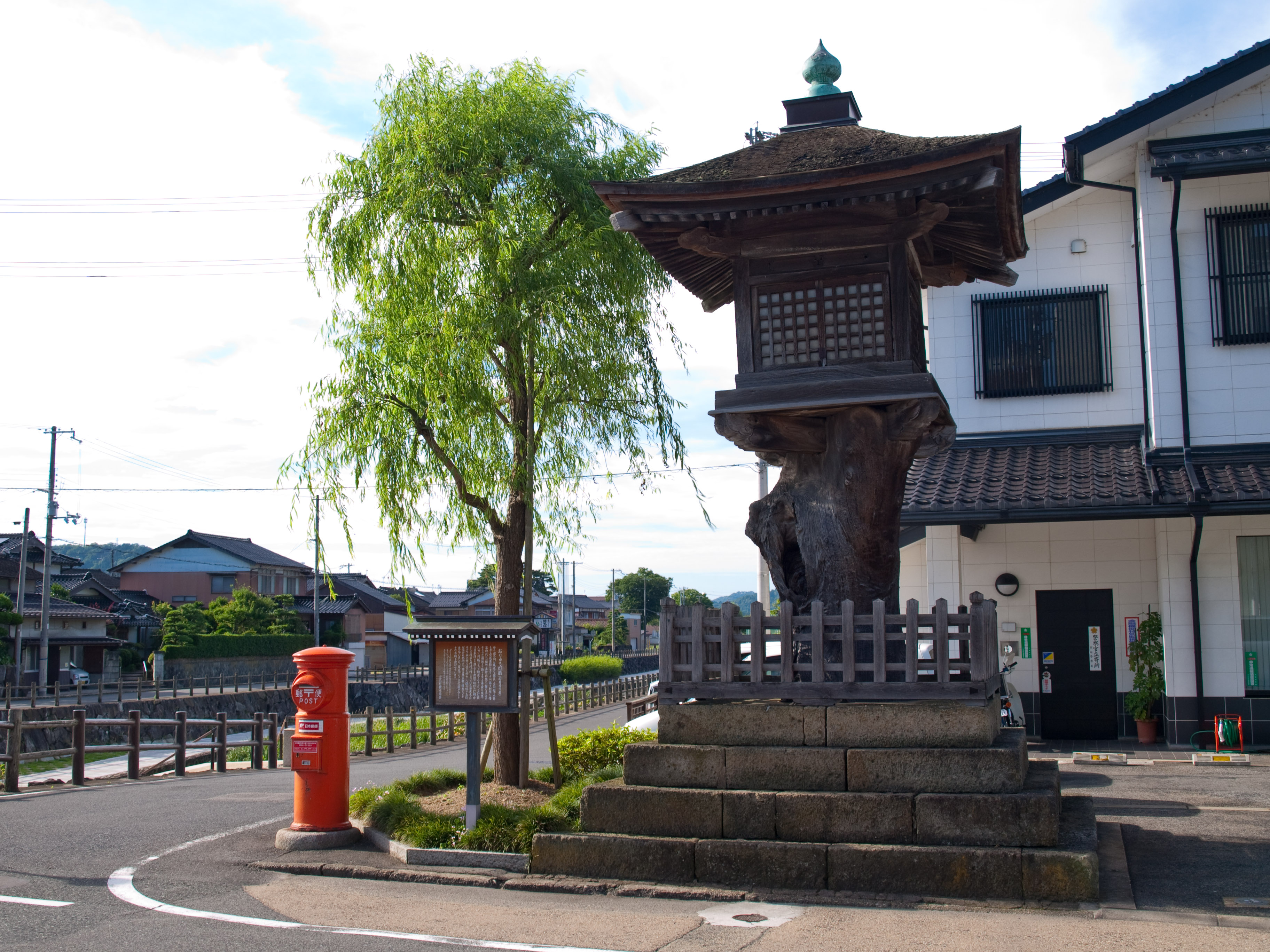 Oryu-Tourou in Toyooka, Hyogo Prefecture, Japan.